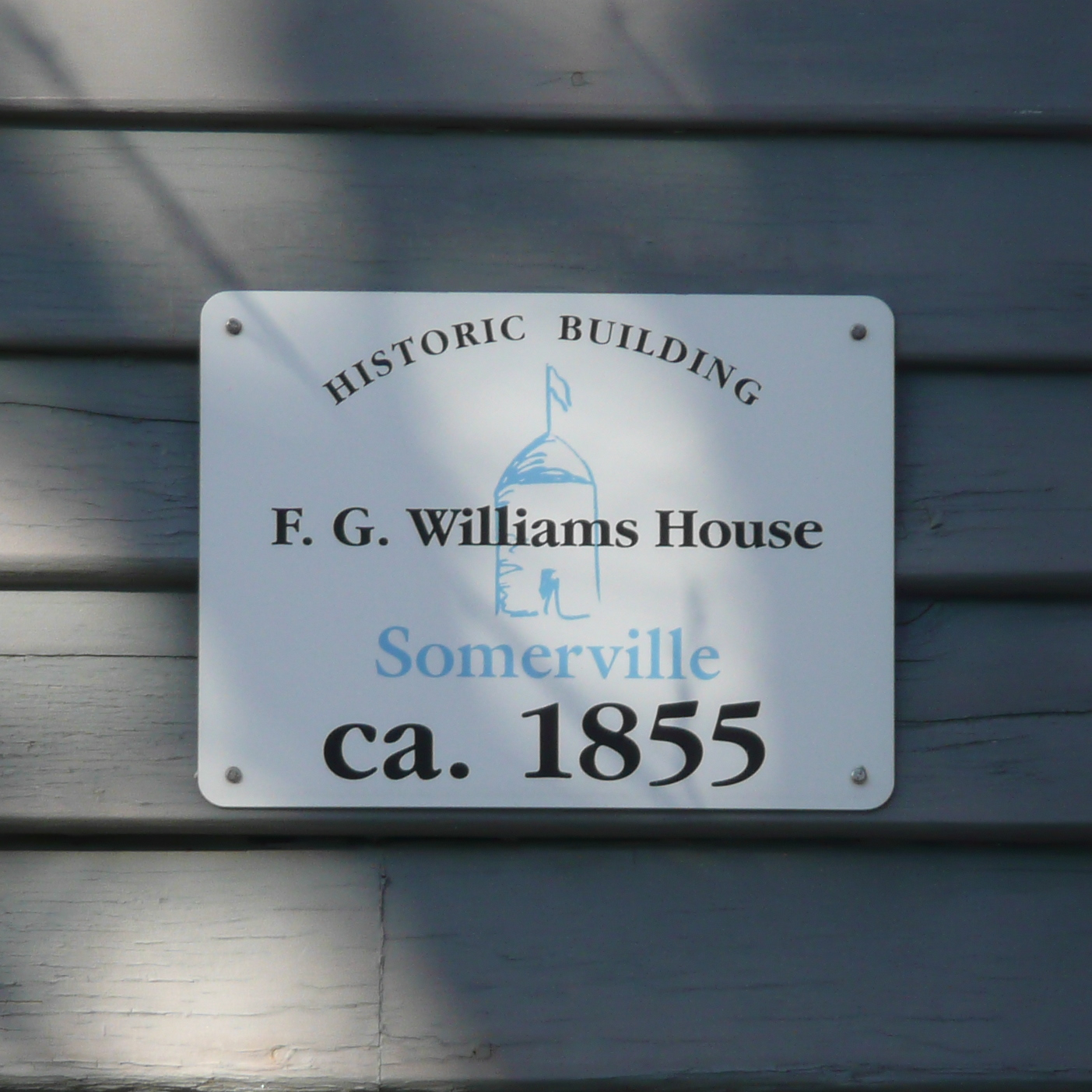 Historic marker sign of the F. G. Williams House. The F. G. Williams House is a historic house at 37 Albion Street in Somerville, Massachusetts. It was added to the National Register of Historic Places in 1989.